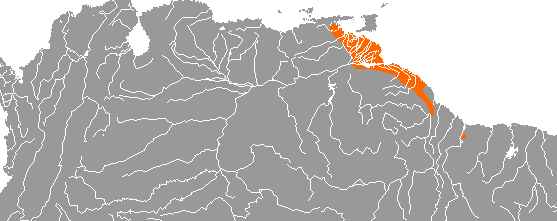 Approximate Warao language area, in the delta of Orinoco River.